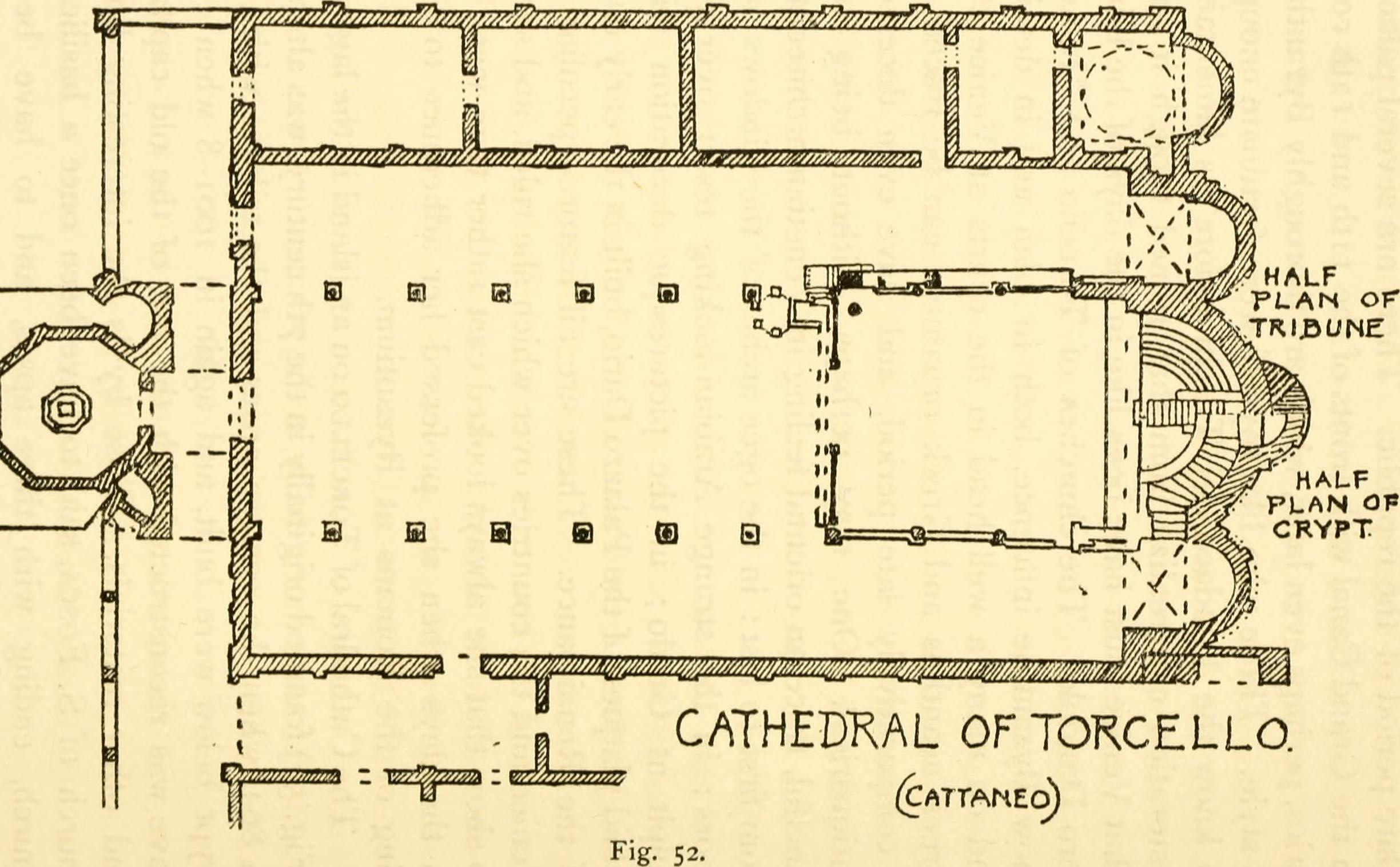 Title: Byzantine and Romanesque architecture Year: 1913 (1910s) Authors: Jackson, Thomas Graham, Sir, 1835-1924 Subjects: Architecture, Byzantine Architecture, Romanesque Publisher: Cambridge (Eng.) University press Text Appearing Before Image: to last: in the ogee arches of the windows anddoors ; in the strange Arabian-looking tester over thepulpit at Grado ; in the picturesque decoration withinlaid plaques of the Palazzo Dario, built in the early daysof the Renaissance. These are all features peculiar toVenice and the countries over which she ruled, and seemto show that she always looked east rather than west, asin the days when she professed her adherence to theking of the Romans at Byzantium. The Cathedral of Torcello on an island in the lagune, Torceiio(Fig. 52) founded originally in the 7th century, was alteredin 864, when the eastern apses and the tribune with thecrypt below were built, and again in 1001-8 when thenave was reconstructed with the use of the old capitalsand other materials. Close by is the interesting littlechurch of S. Fosca, said to have been once a basilican s. Foscachurch, ending with three apses, and to have beenre-modelled in 1008 to a Byzantine plan, and prepared * See Cattaneo. 236 VENICE CH. XV Text Appearing After Image: I I I i